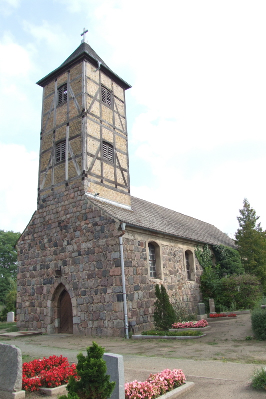 Church in Schenkenhorst (rural district Potsdam-Mittelmark, Germany). Version with higher resolution is available.